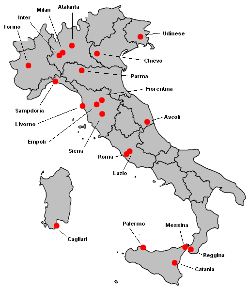 Serie A 2006-07 team locations